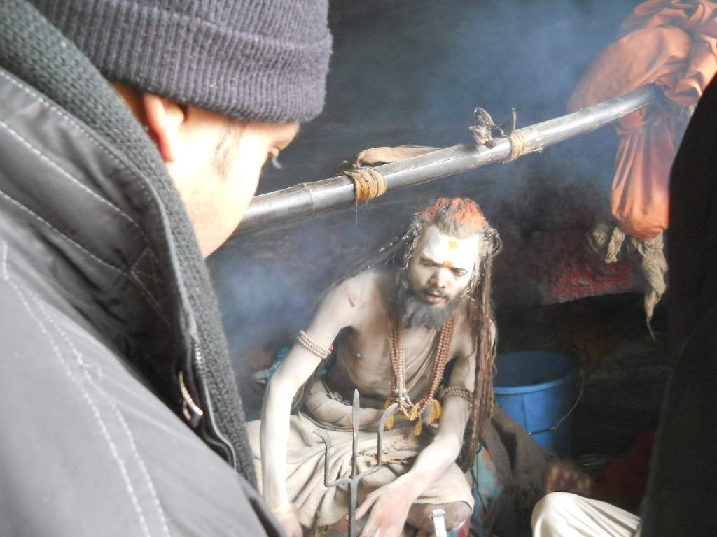 Agori